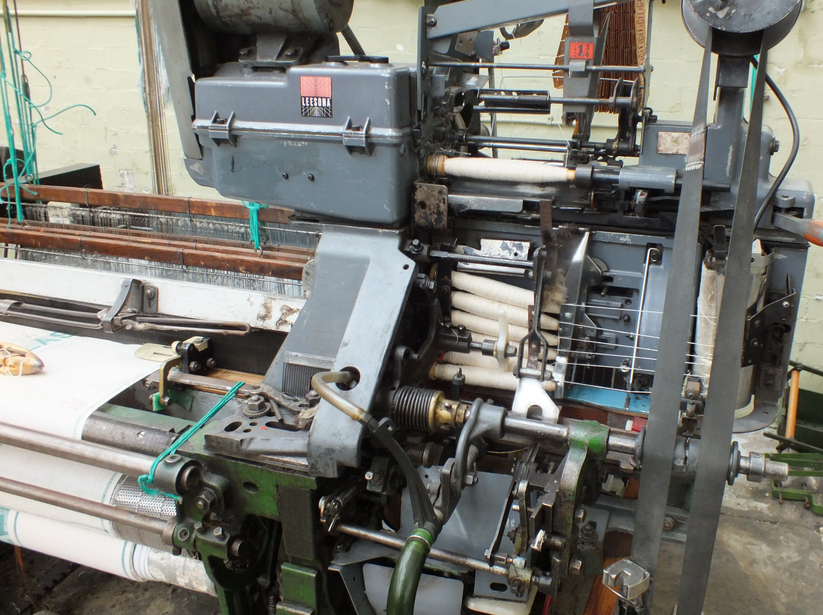 Queen Street Mill in Harle Syke, a suburb to the north-east of Burnley, Lancashire, was built in 1894 for the Queen Street Manufacturing Company. It closed on 12 March 1982 and was mothballed, but was subsequently taken over by Burnley Borough Council and used as a museum. In the 1990s ownership passed to Lancashire Museums. Unique in being the world's only surviving steam-driven weaving shed. The Northrop loom was invented in 1891 by James Henry Northrop who invented the self changing shuttle device. The model S has a dobby to control the main weave with a jacquarette to to handle the pattern in the green name band. The Leesona Unifil was first sold in 1958 is a high speed pirn winder where a depleted pirn is filled and replaced in the pirn rack. County Brook Mill